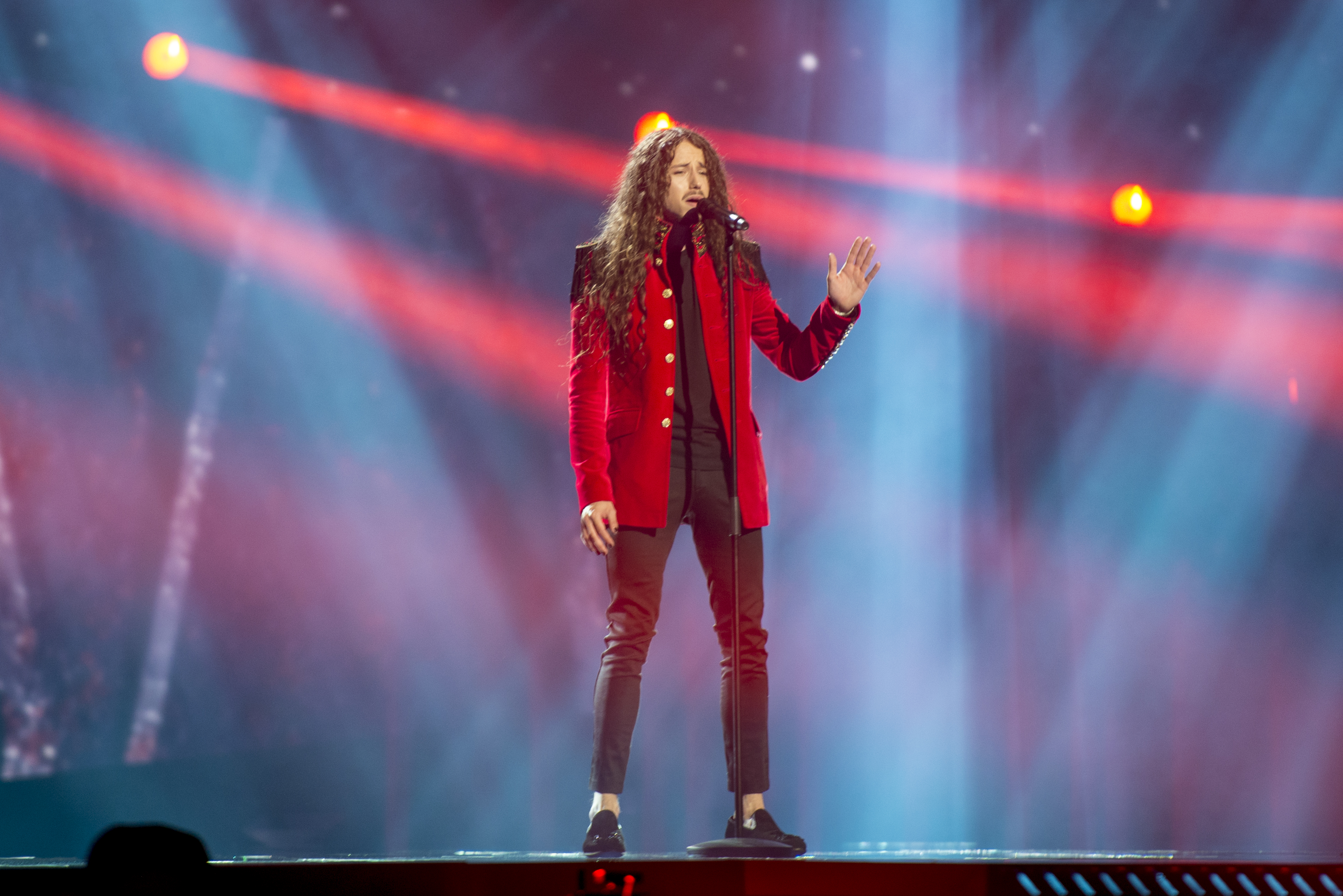 Michał Szpak representing Poland with the song "Color Of Your Life" during a rehearsal before the second semi final of the Eurovision Song Contest 2016 in Stockholm. (Help translate this text)